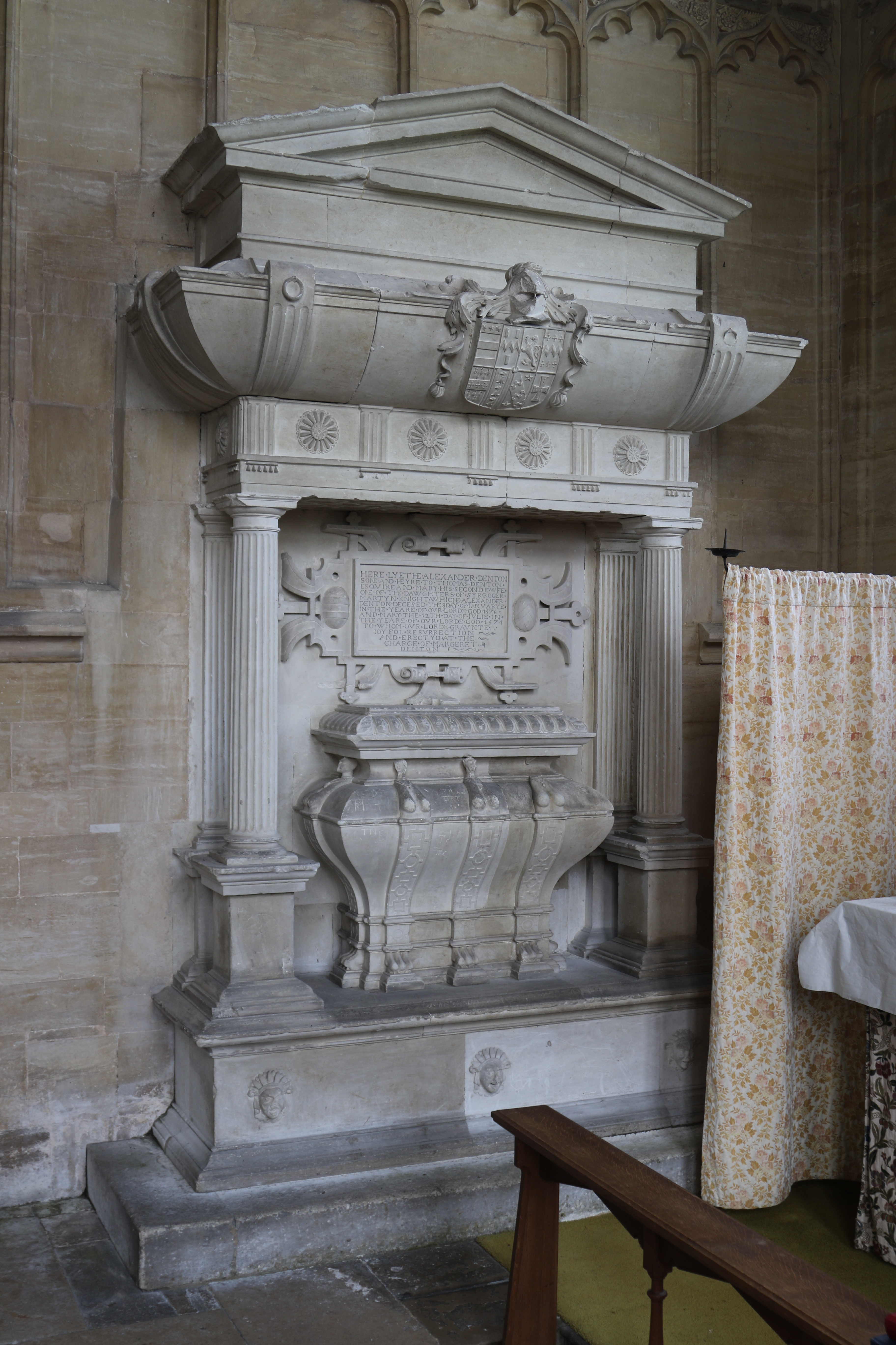 Here lyethe Alexander Denton sone and heyre to Thomas Denton Esquire and Mary his second wfe one of the dawghters of Syr Roger Martyn Knight, which Alexander Denton decesed the 8 Day of Januarye in the yeare of out Lorde God 1576 and Mary the 12th Day of Julie in the year of our Lorde God 1574 to whom our Lorde graunte joyfol resurrection and erectyd at the charge of Margeret Denton.